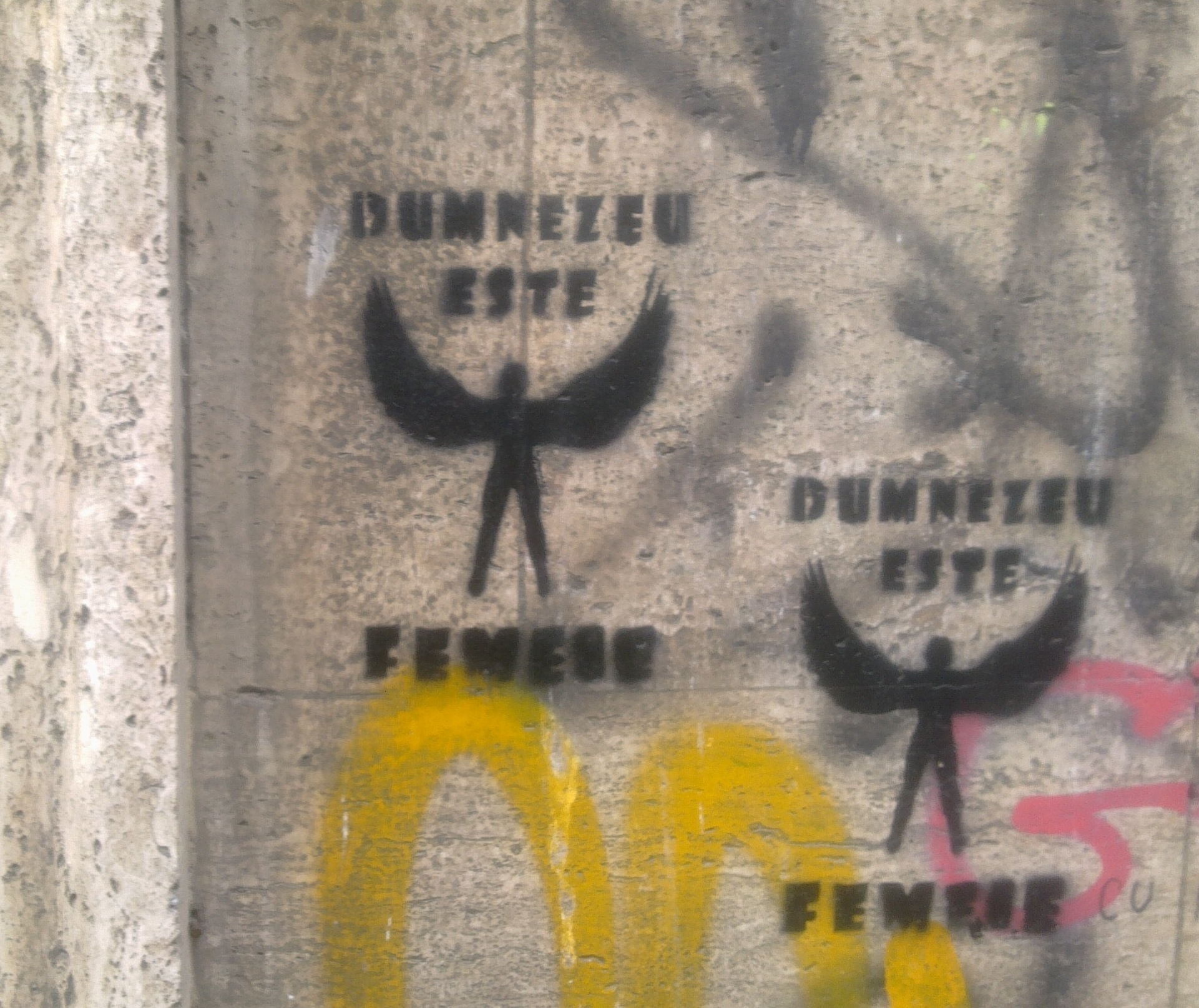 Anonymous tag in Romanian: "God is a woman", Bucharest 2013